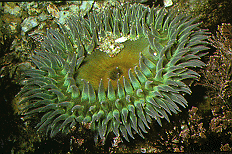 Giant green anemone (Anthopleura xanthogrammica)